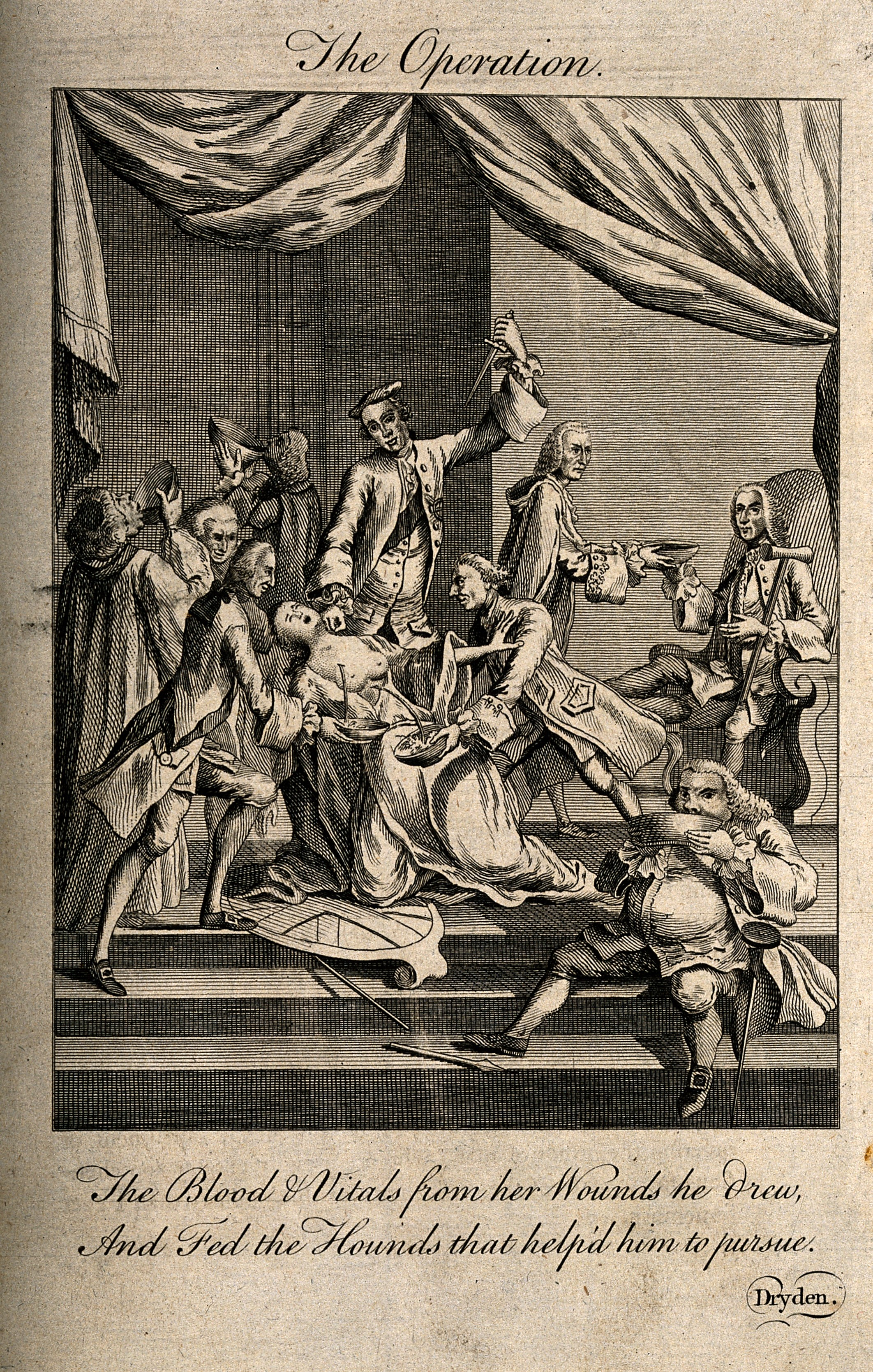 A woman being stabbed while the blood pouring from her wounds is drunk by a group of men; representing Britannia's resources being drained by politicians. Engraving, 1768. Iconographic Collections Keywords: William Pitt; Thomas Thynne; James Mansfield; 1734-1796; 1793; thynne, thomas, viscount weymo; William Wildman Barrington; mansfield, james, sir, 1733-18; Fletcher Norton; allen, william; barrington, william wildman, v; Augustus Henry Fitzroy; fitzroy, augustus henry, duke; John Stuart; William Allen; stuart, john, earl of bute, 17